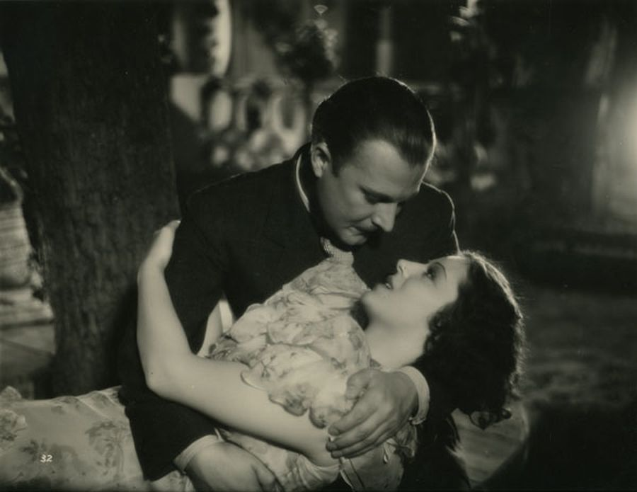 Scene from the Hungarian movie titled Az új rokon (The New Relative) (released in 1934)